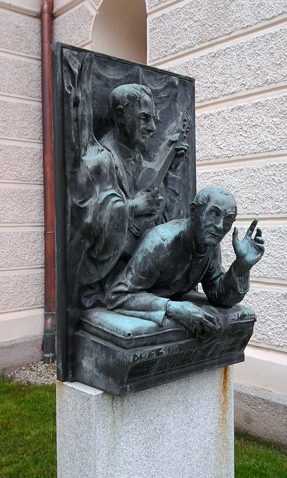 Memorial to Franz Xaver Gruber (back) and Joseph Mohr (front), composer and writer of the Christmas choral Silent Night, Holy Night, in front of the church of St. NIcholas in Oberndorf bei Salzburg